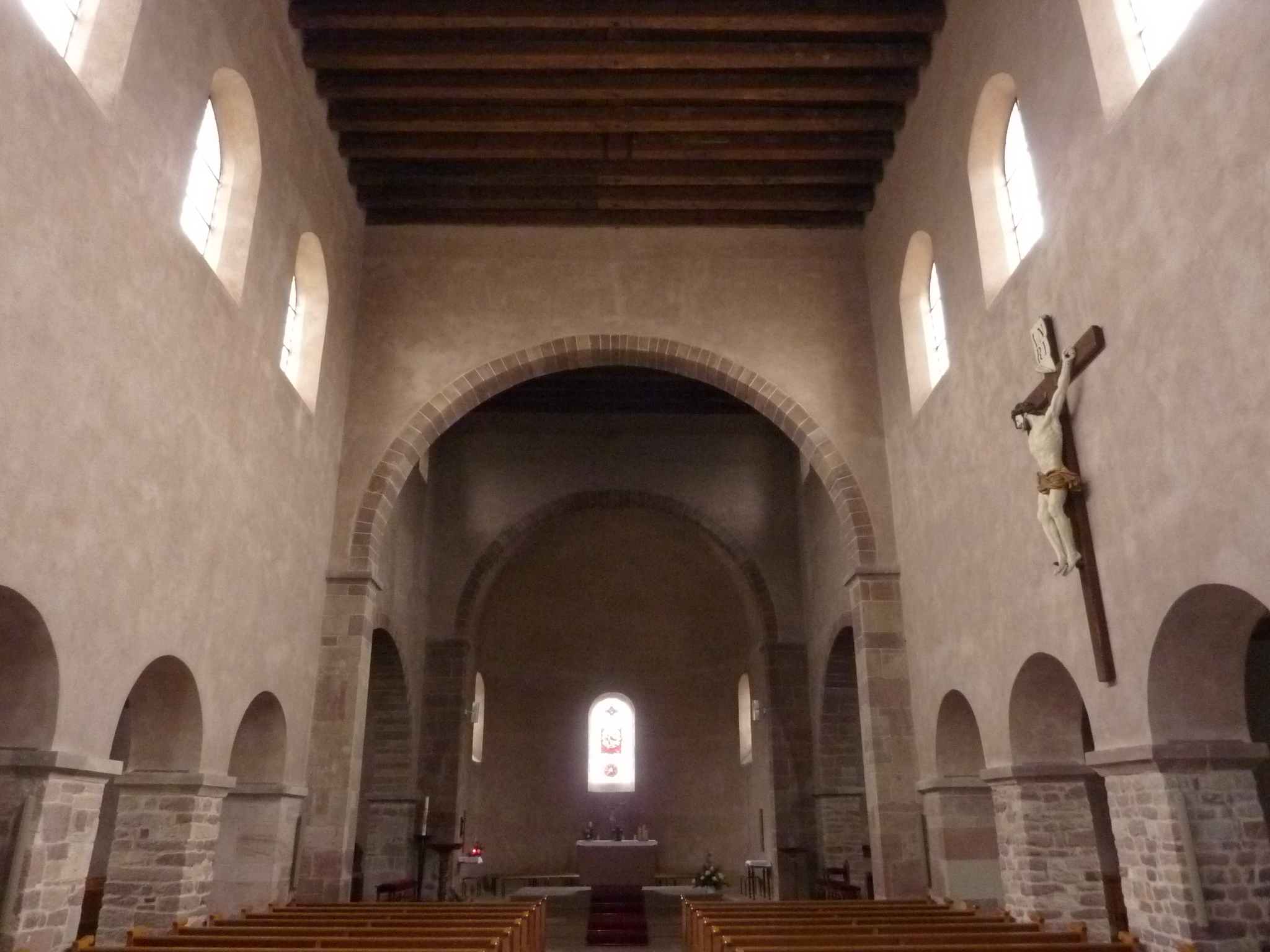 Interior of Église Saint-Trophime, Eschau